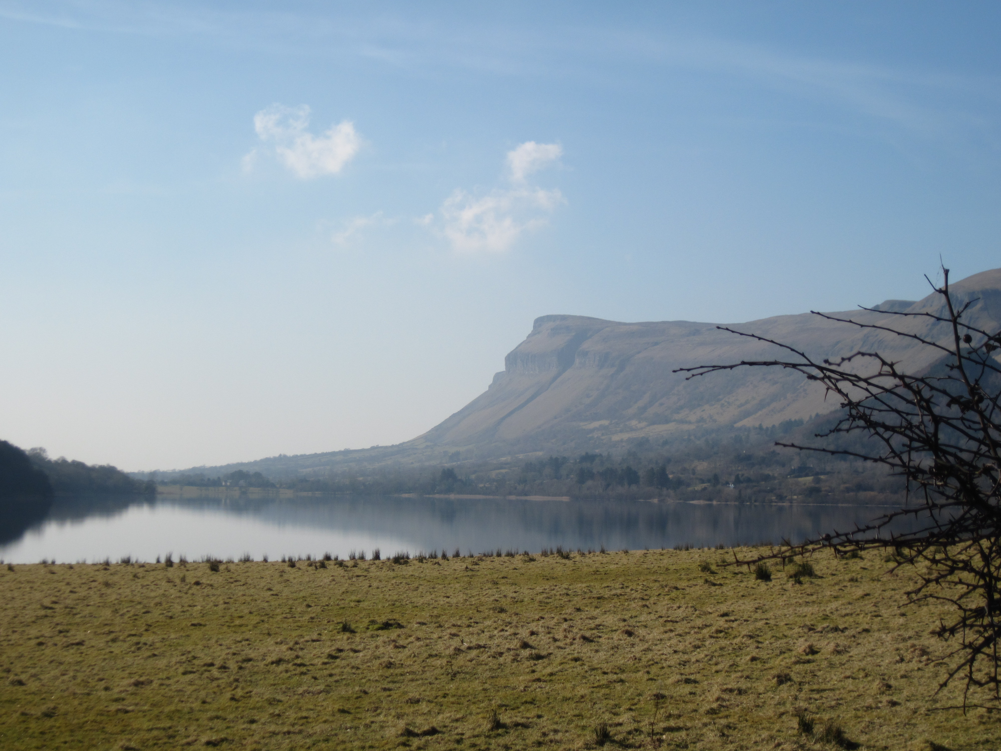 Glencar Lough and Benbulbin - westward view